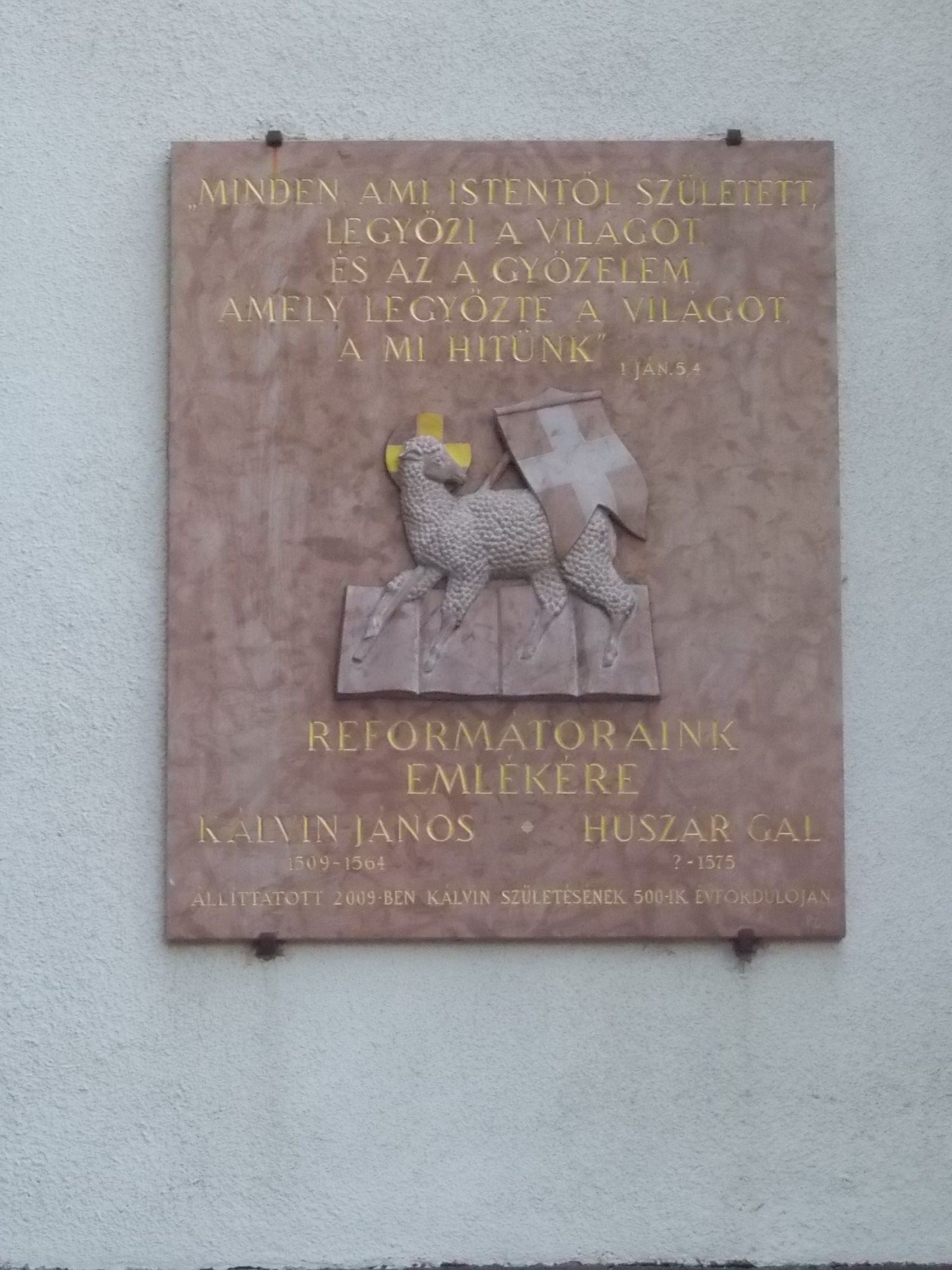 Reformed Church, plaque/relief dedicated to Jean Calvin and Gál Huszár. - Hunyadi Street, Magyaróvár neighborhood, Mosonmagyaróvár, Győr-Moson-Sopron County, Hungary.